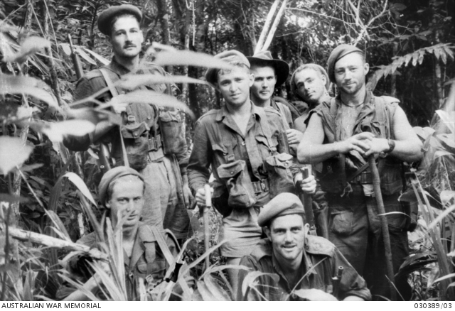 Australian commandos from the 2/2nd Independent Company, assigned to Bena Force, in New Guinea, July 1943.